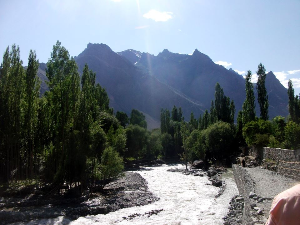 Shiger Valley is valley of baltistan (Northern Pakistan)